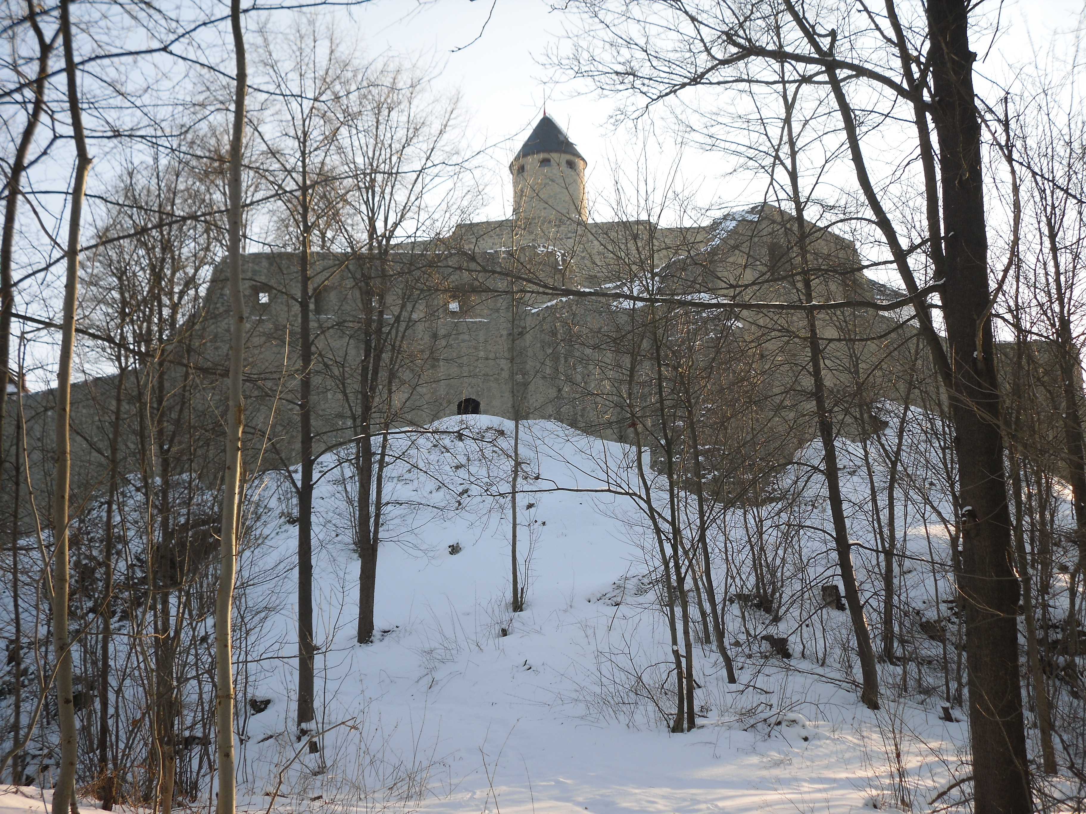 Castle at Lichtenberg, Upper Franconia, seen from east